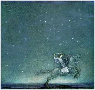 Illustration for " Ringen " (The ring) by Helena Nyblom in "Bland tomtar och troll" (Among gnomes and trolls), 1914.